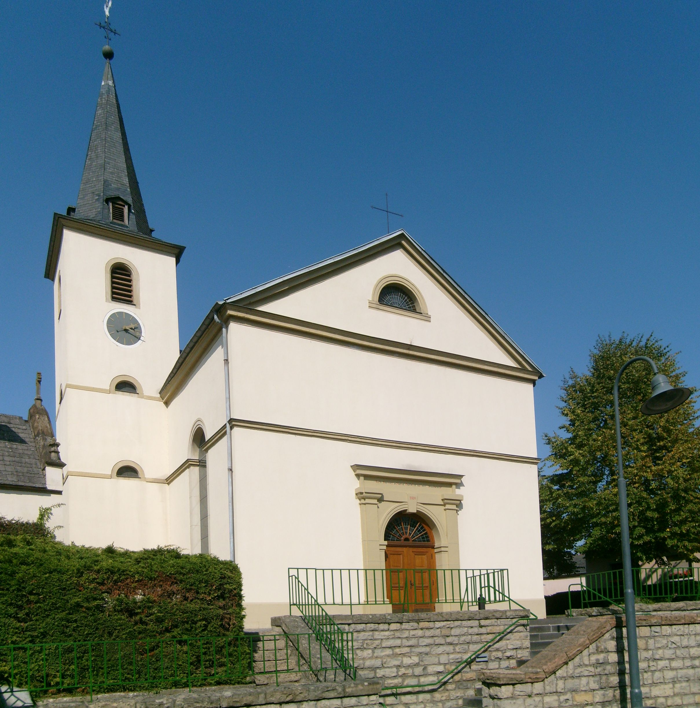 Church of Stadtbredimus, Luxembourg